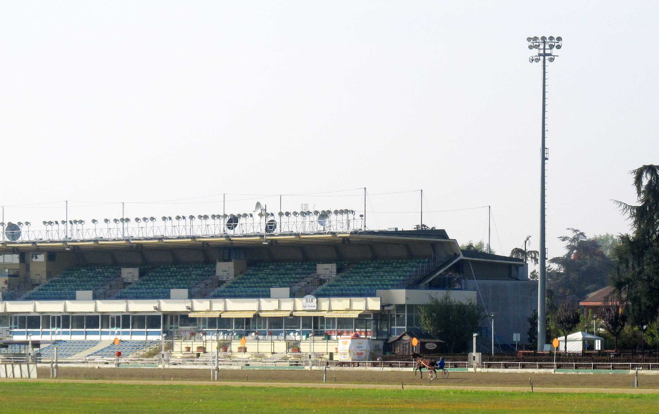 Vinovo racecourse (TO, Italy)